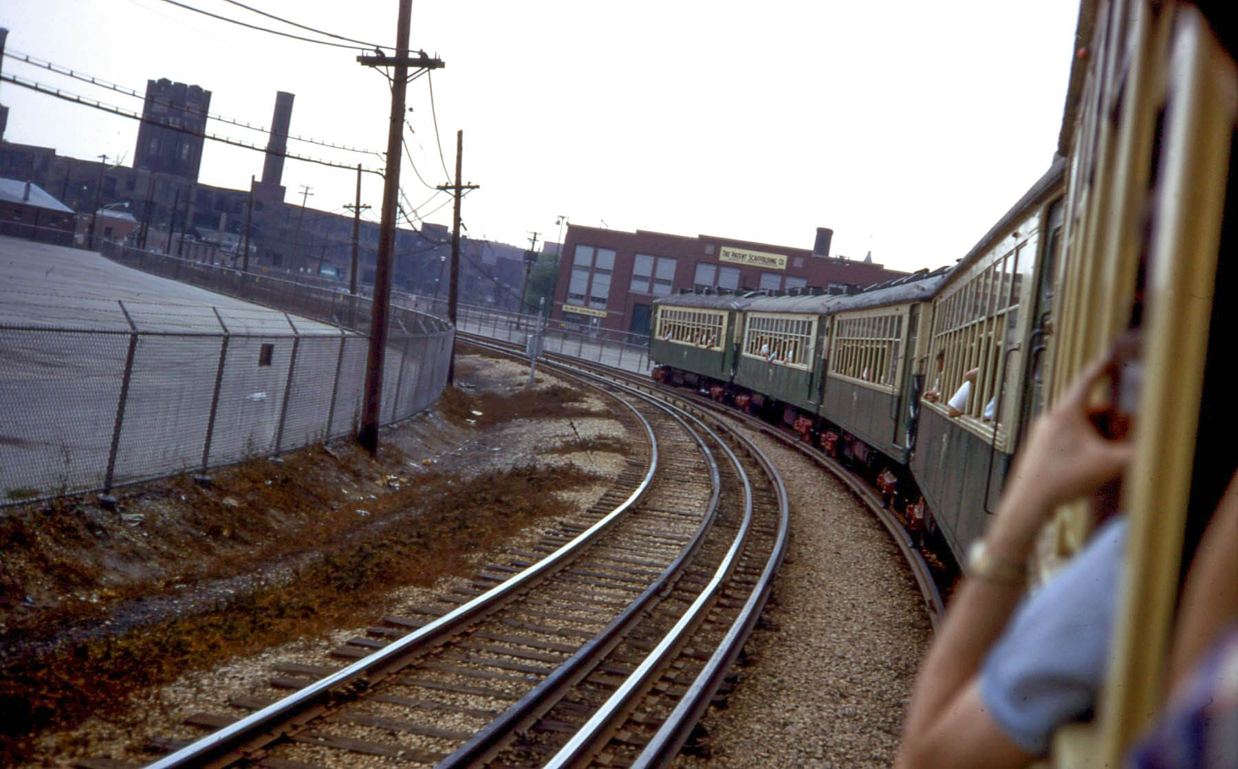 19680609 41 CTA Rapid Transit @ Kenton Ave.